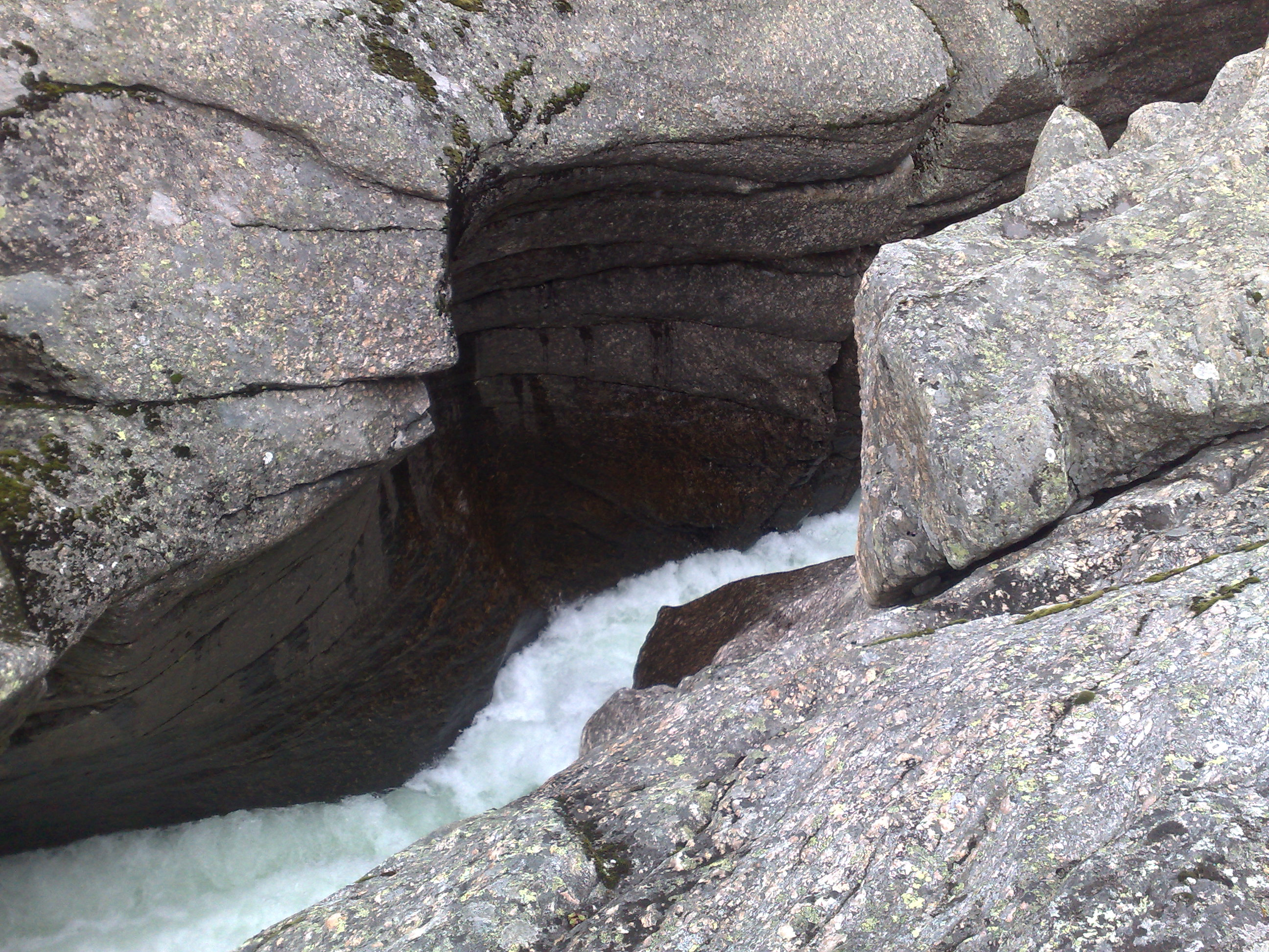 Magalaupet, Giants kettle in the Driva River in Norway.